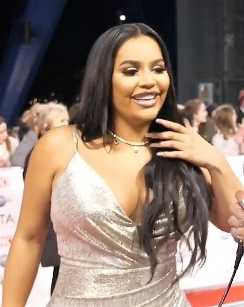 Welsh television personality Lateysha Grace interviewed by UKGossip TV at the National Television Awards. Highlights of the National Television awards 2020 with Jourds @Jourds_ had the pleasure of gracing the NTA's red carpet at the o2 arena, inteviewing our much loved tv reality stars! Filmed and edited by @Jojobami